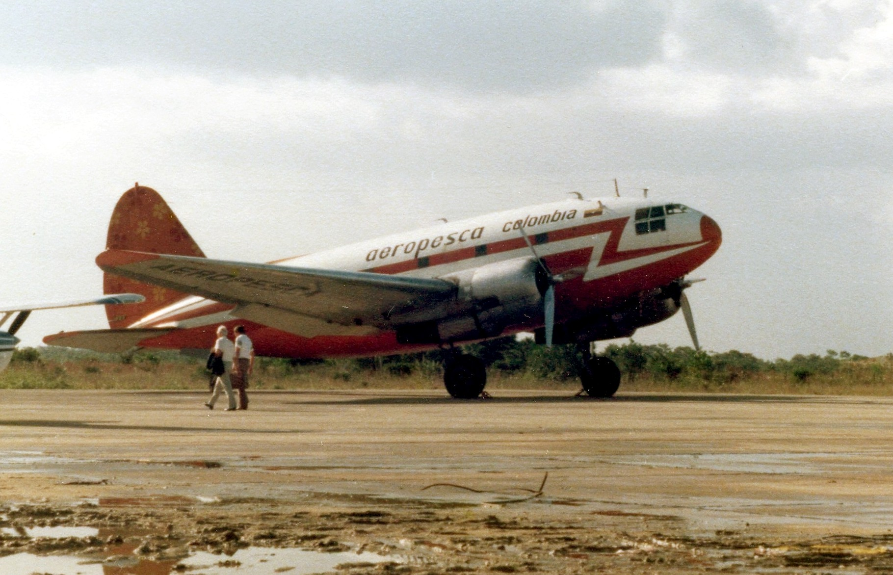 Curtiss C-46, Aeropesca de Colombia, Belize international Airport. Impounded.